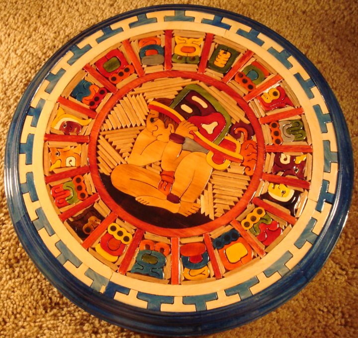 Mayan calendar created by a modern craftsman